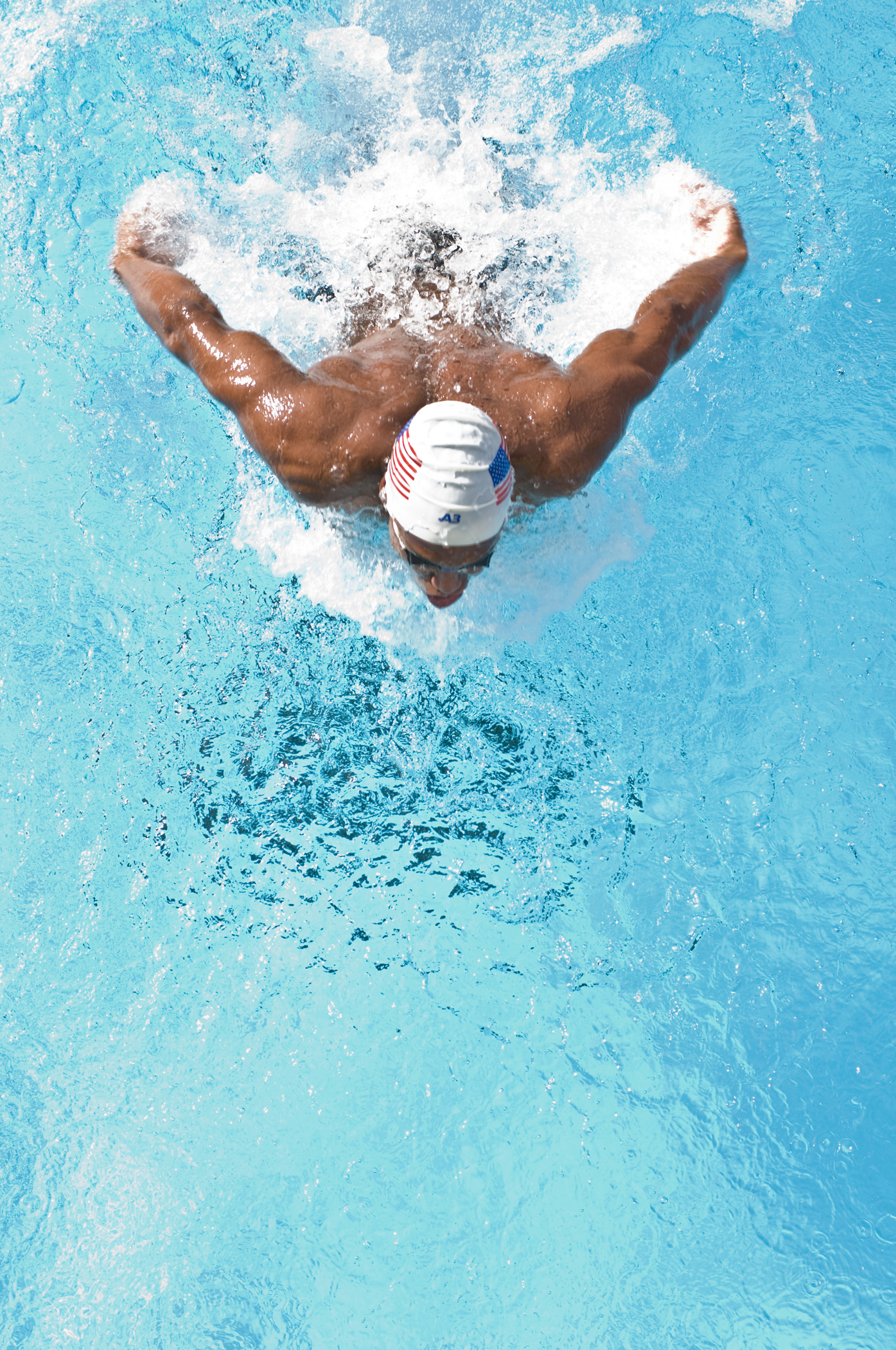 Sgt. Gunther Rodriguez Osorio, a motor transport operator with Marine Wing Support Support 274 Motor Transport Company, swims the butterfly stroke. Osorio competed in Sydney in the 2000 Olympic Games, finishing 27th in the world, and most recently in the Conseil International du Sport Militaire Swimming and Lifesaving World Championships.